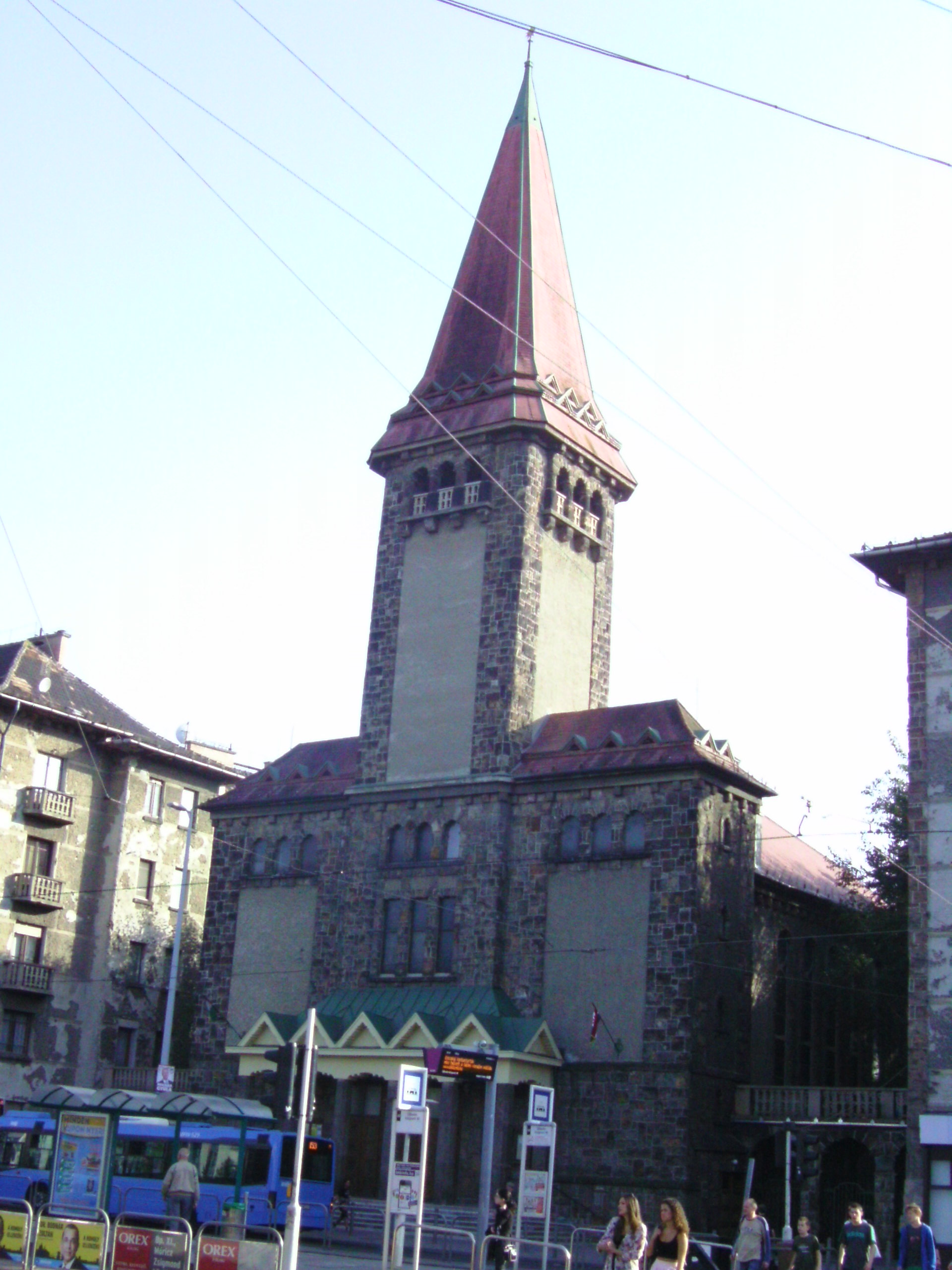 Hungarian Advent Church, Budapest, XI.distr.Október 23. utca 5